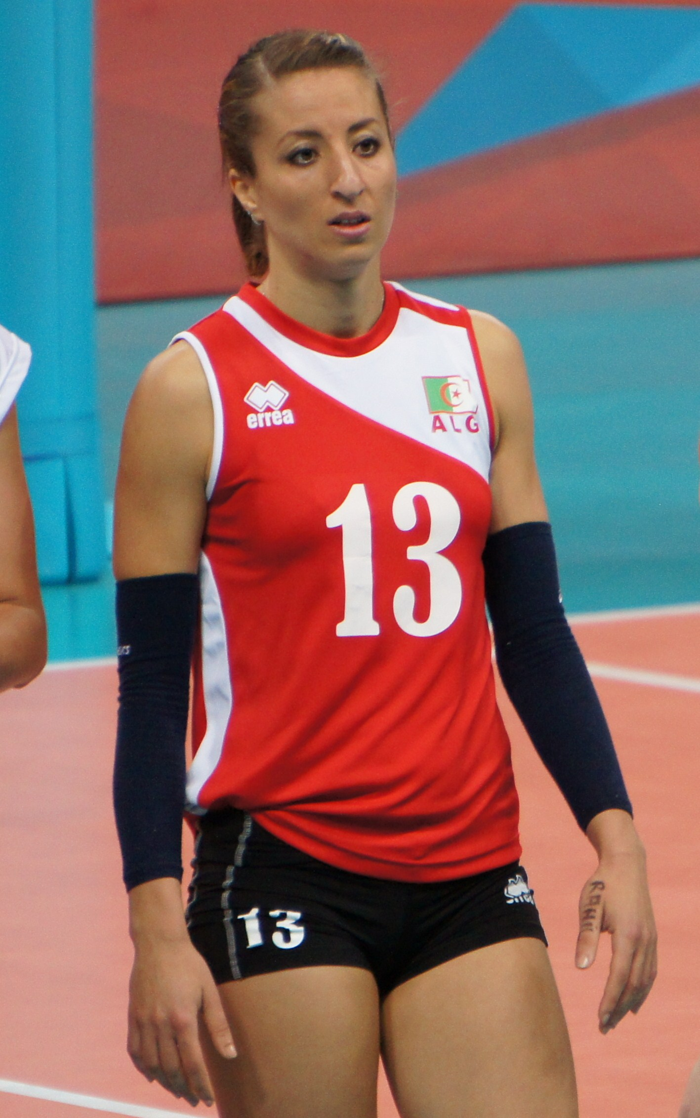 Algerian volleyball player Nawal Mansouri at the 2012 London Olympic Games.